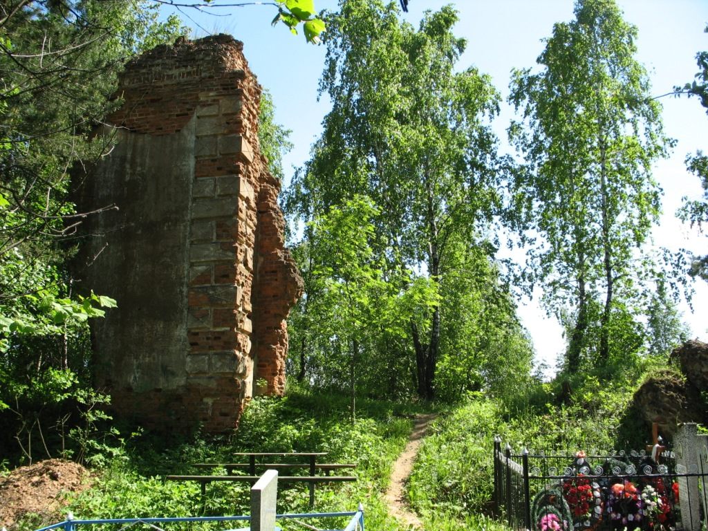 Castle in Siomkau Haradok (Belarus) Рэшткі капліцы на замку ў Сёмкавым Гарадку ля Менску